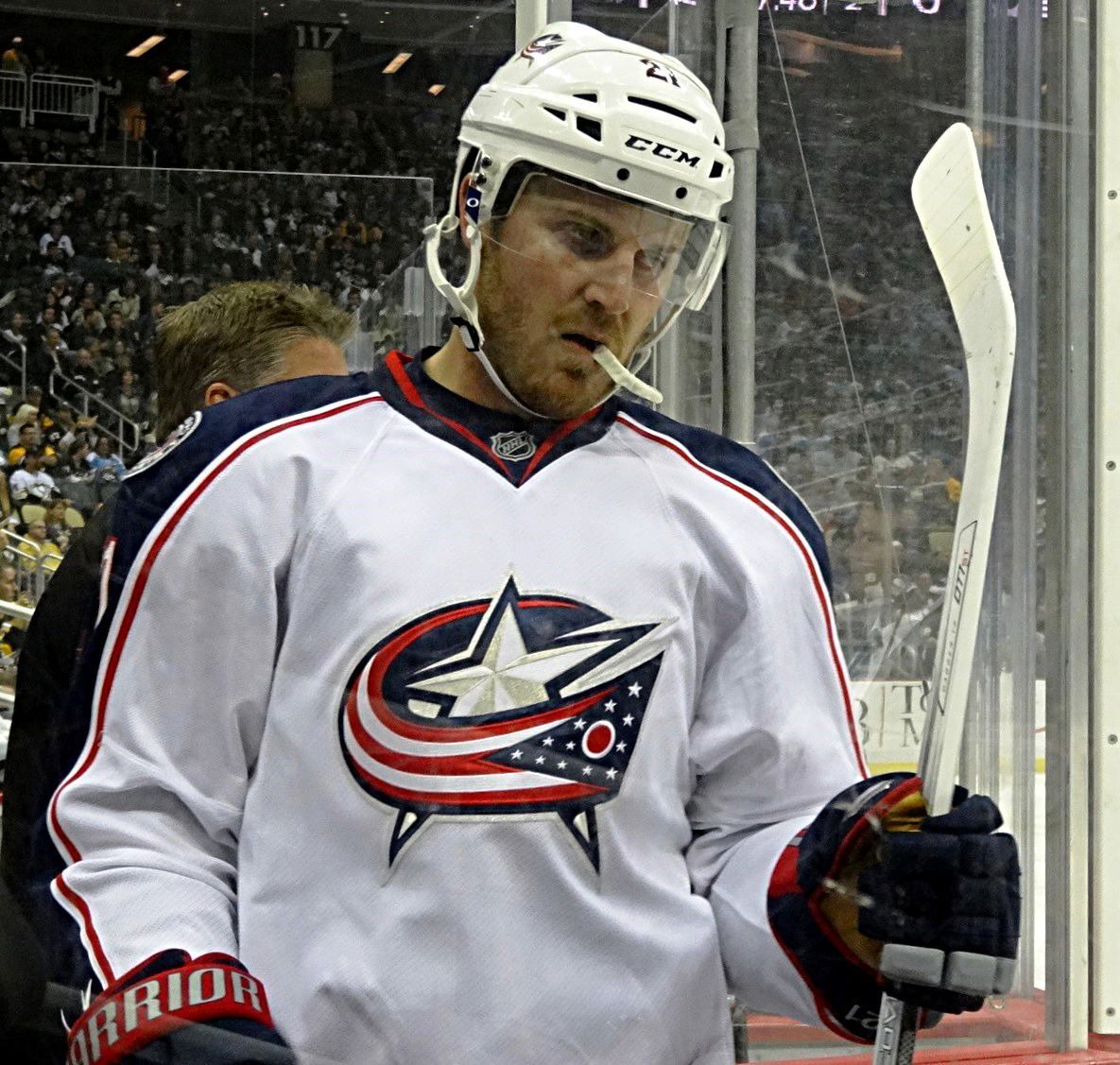 Columbus Blue Jackets defenseman James Wisniewski during a game against the Pittsburgh Penguins, November 1, 2013, at Consol Energy Center in Pittsburgh, PA.